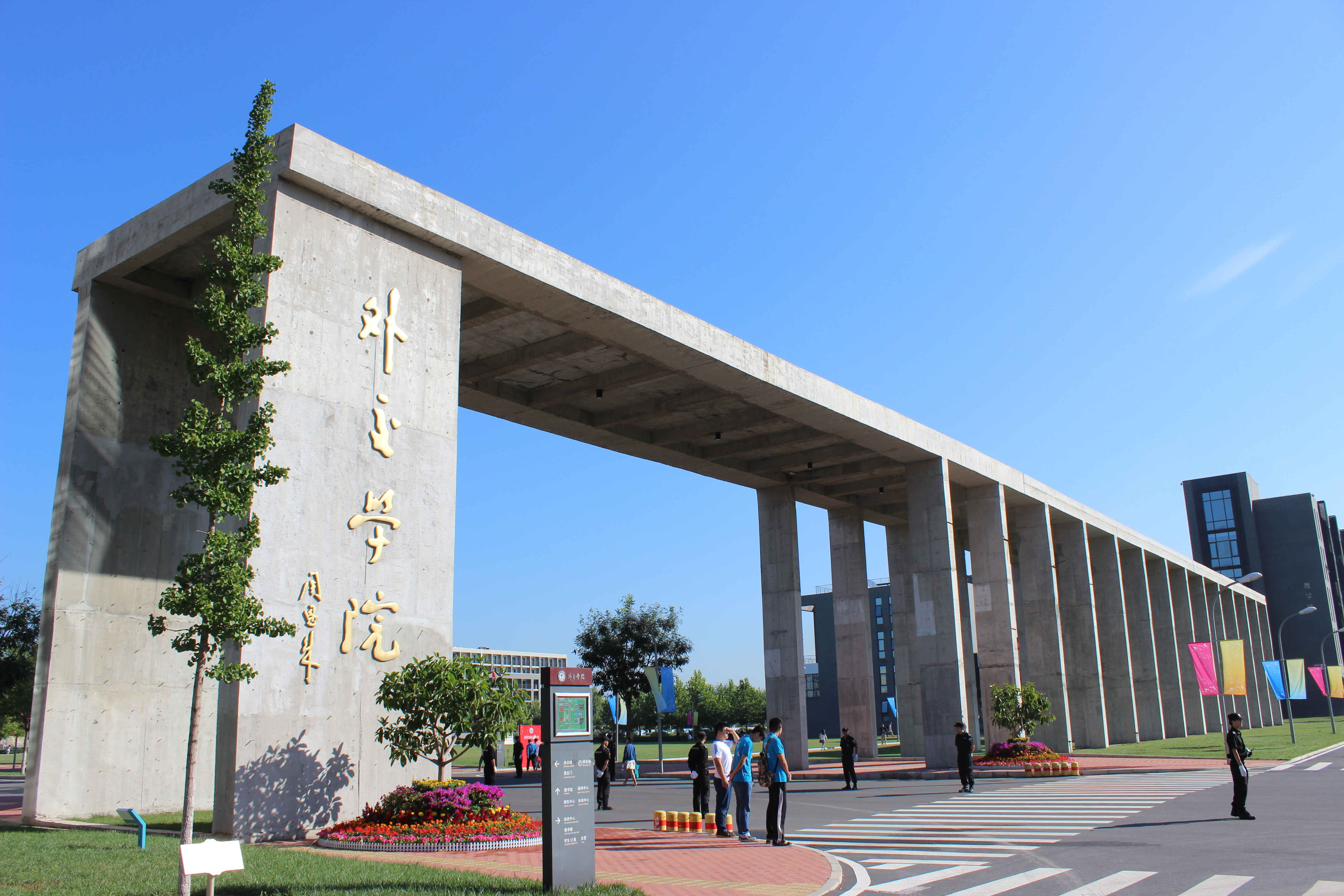 The front gate of China Foreign Affairs University, Shahe Campus